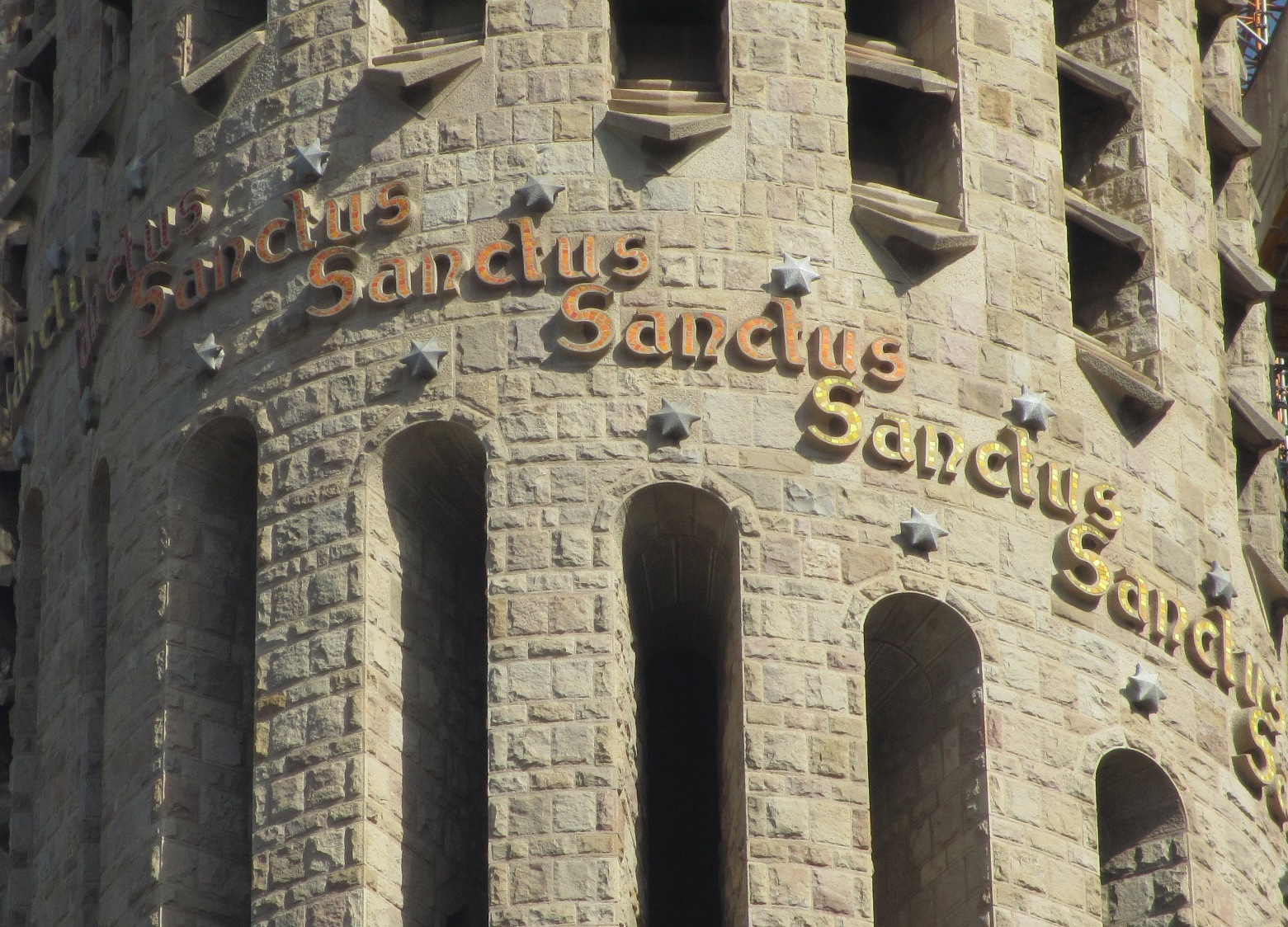 The Sagrada Familia towers are decorated with words from the liturgy such as Sanctus